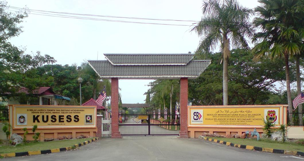 Kusess main enterance